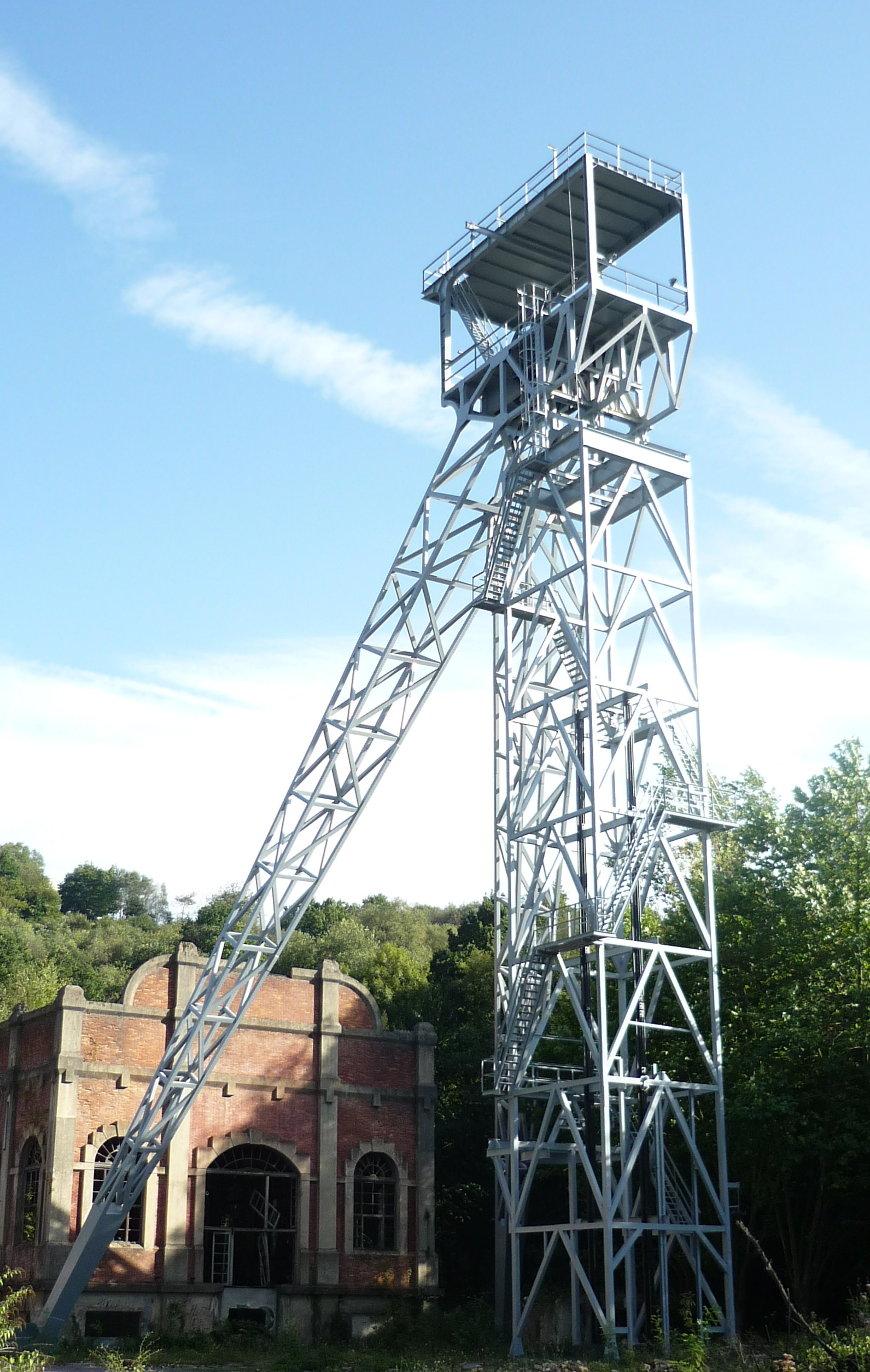 The tower of the Mosquitera II Mine in Asturias, Spain.